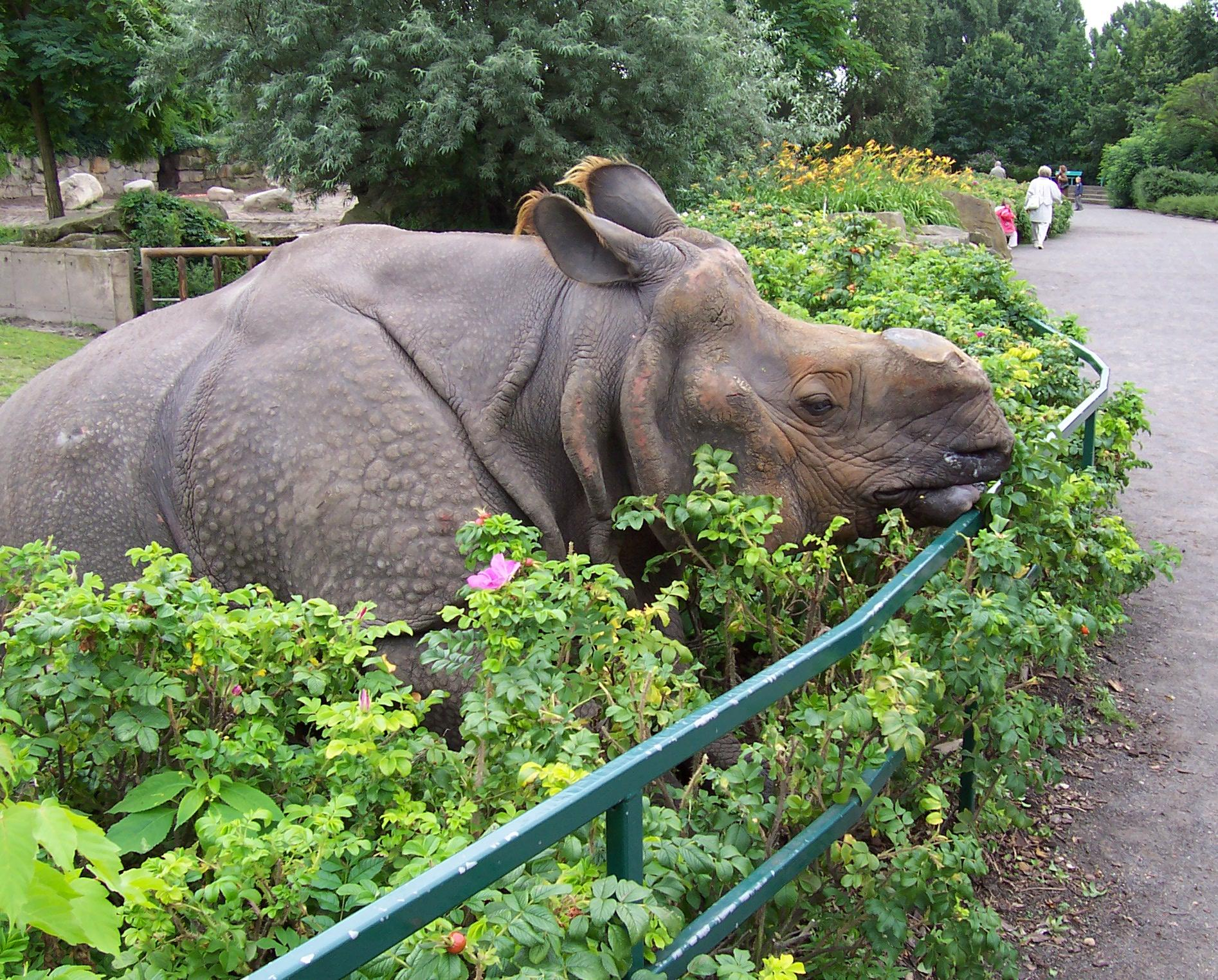 Indian Rhinoceros (Rhinoceros unicornis) at Tierpark Berlin.